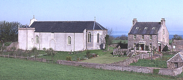 Preshome. The 18th century St Gregory's Roman Catholic Church stands at Preshome. The church is actually in the next square to the west; the house is in the square, as is the photographer's standpoint.